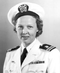 A young white woman in a white Navy uniform, with cap and necktie.